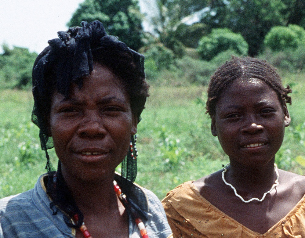 Bantu farmers near Kismaayo in November 1993. Cropped from the original.